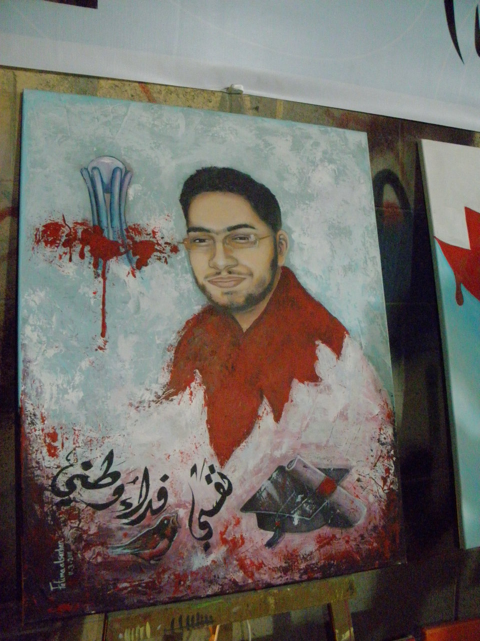 A painting for Ali al-Mo'men, killed by riot police on 17 February 2011, the day is commonly referred to by protesters as 'Bloody Thursday'.